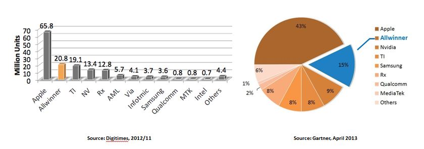 Allwinner processors makes the NO.1 shipping processor for android tablets